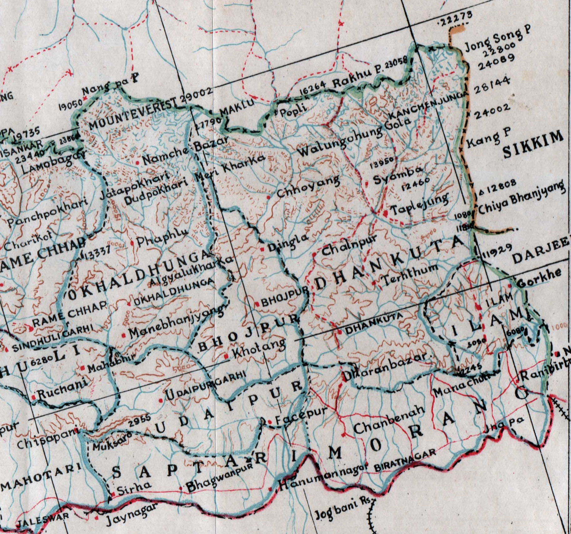 1942 Geographical Map Nepal by Ganesh Bahadur KC.jpg